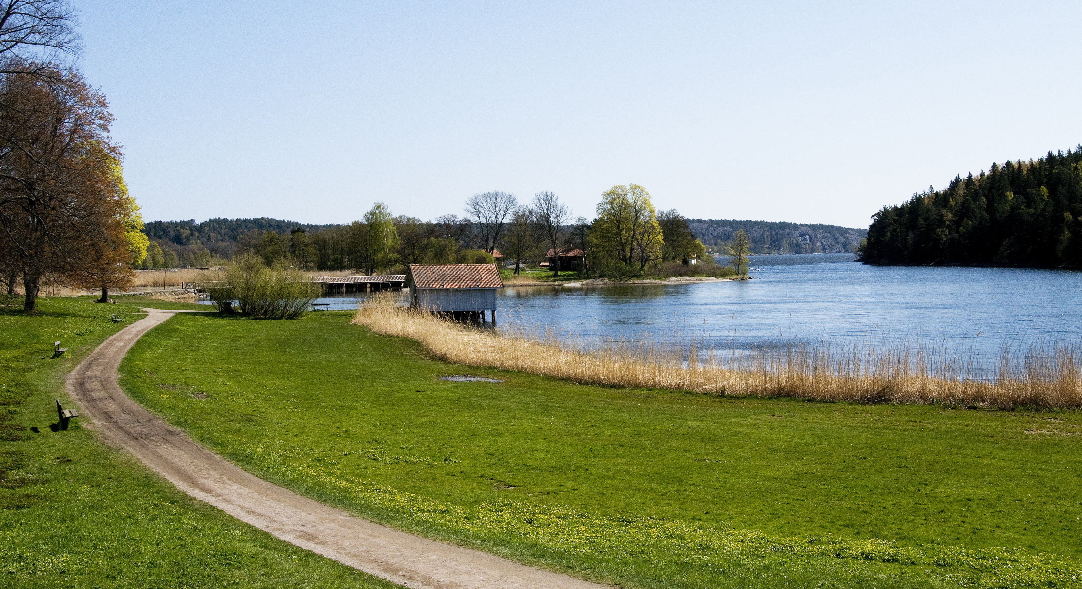 Notholmen, Tyresö municipality, Sweden